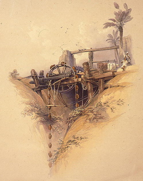 Persian water-wheel (noria), used for irrigation in Nubia Lithograph by Louis Haghe from painting by David Roberts (painter) (1796-1864).